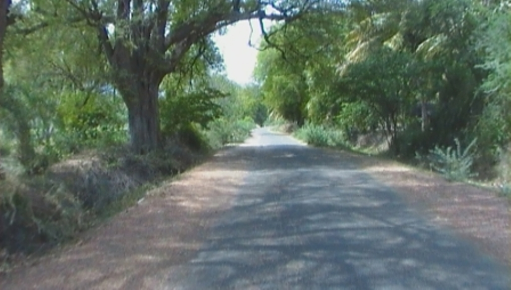 one of the way to Elangakurichy